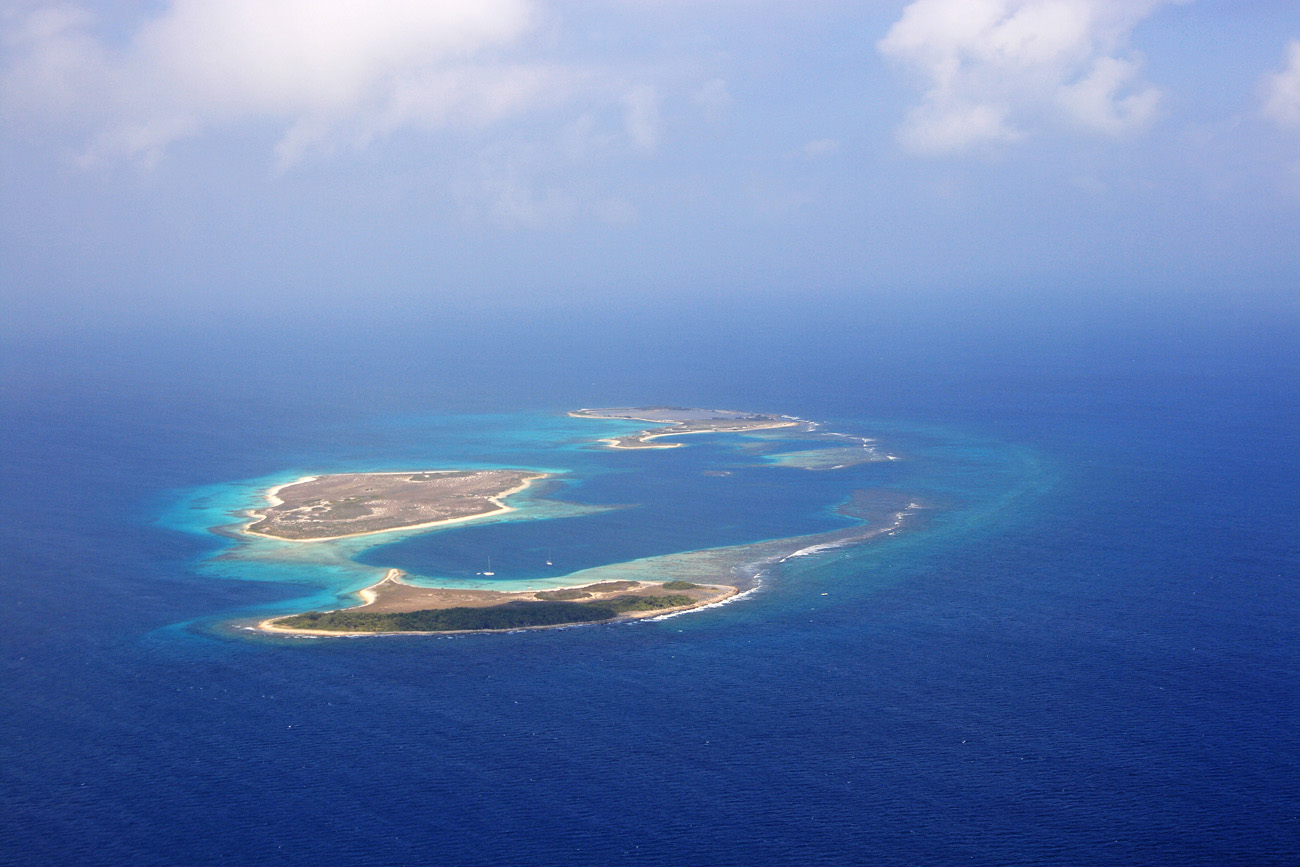 Los Roques from plane